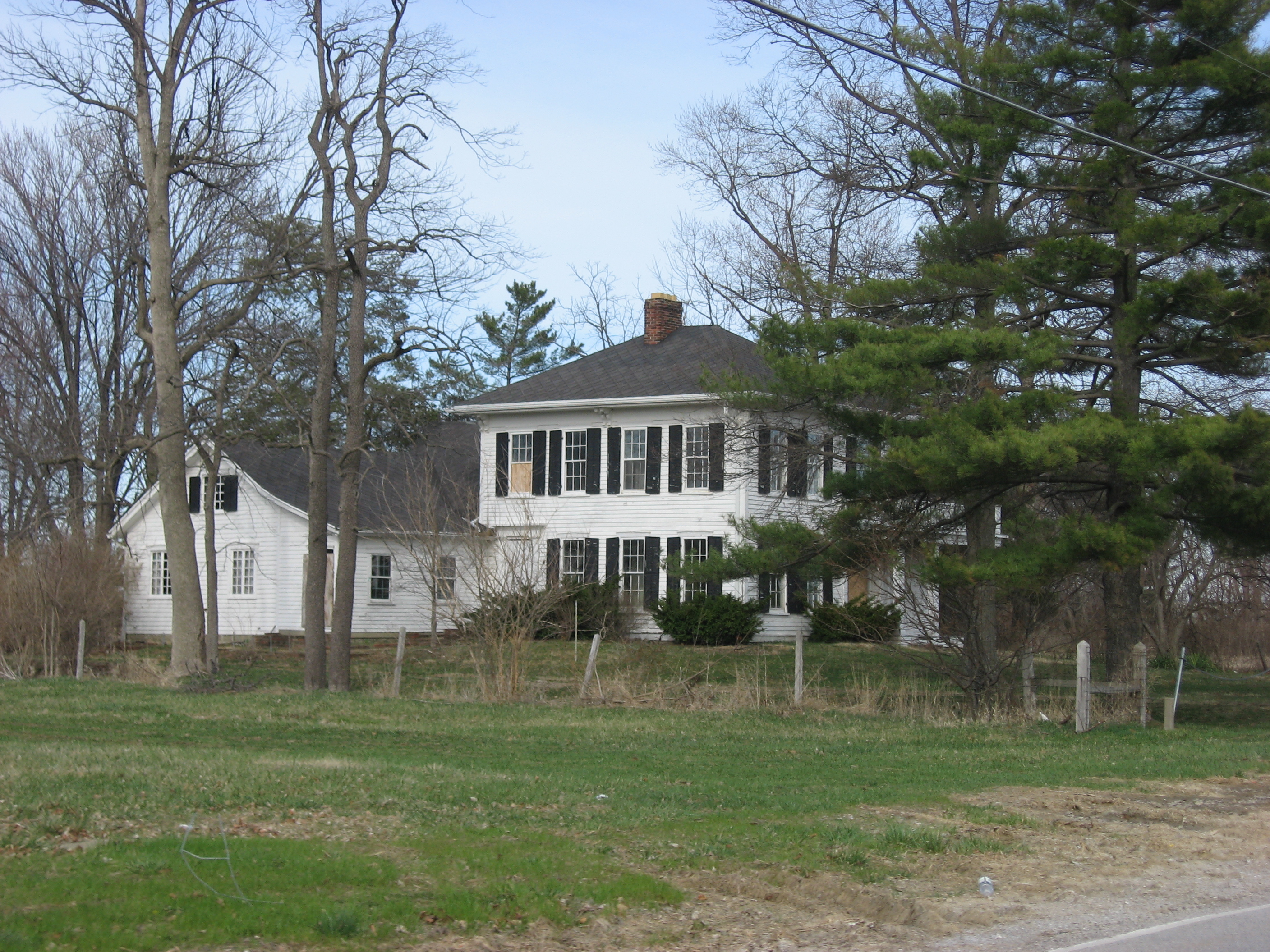 Western side of the Cotton-Ropkey House, located at 6360 W. 79th Street in Indianapolis, Indiana, United States. Built in 1850, it is listed on the National Register of Historic Places.